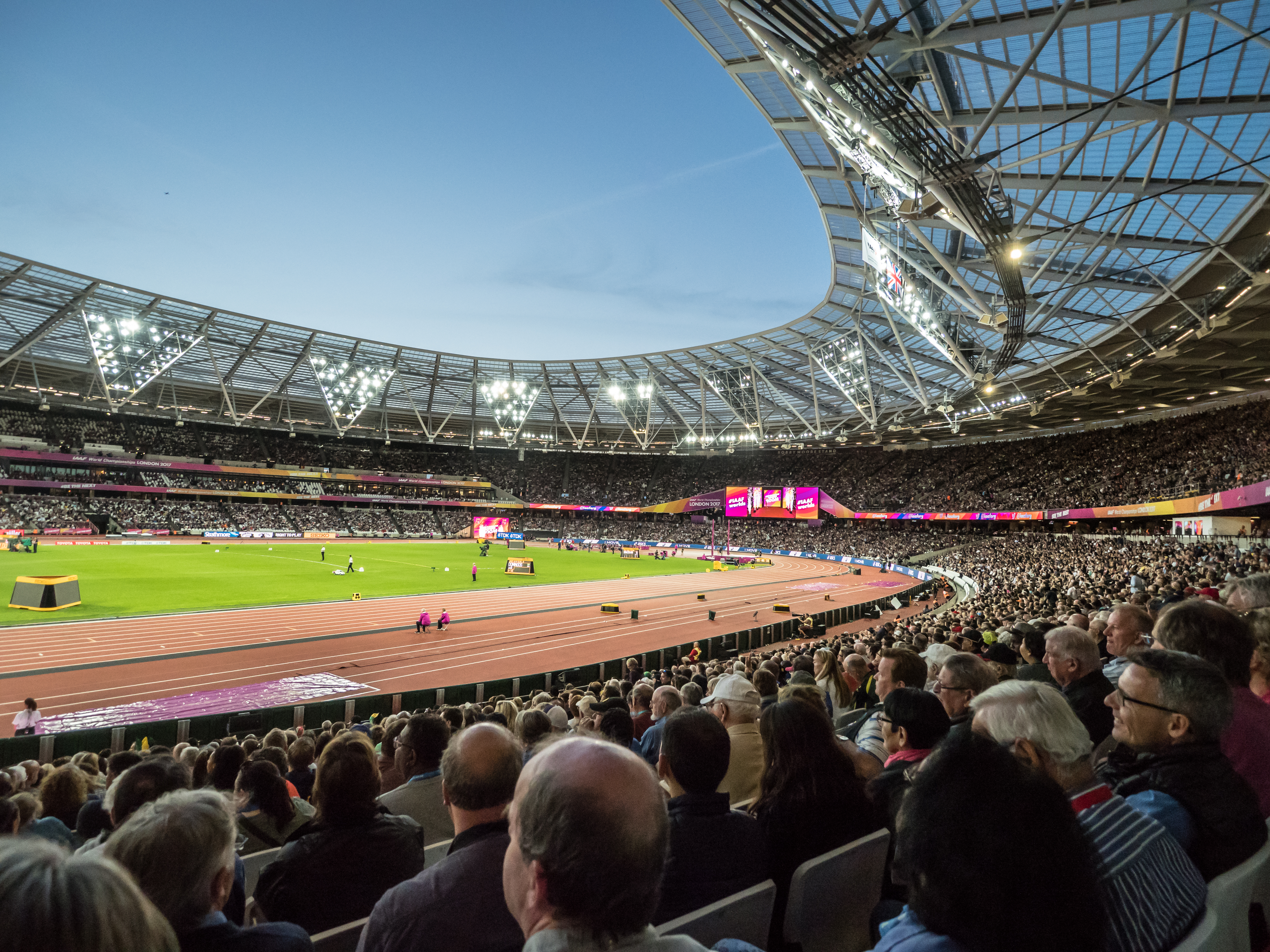 Crowds at the 2017 Athletics World Championships at the Queen Elizabeth Olympic Park in Stratford PERMISSION TO USE: Please check the licence for this photo on Flickr. If the photo is marked with the Creative Commons licence, you are welcome to use this photo free of charge for any purpose including commercial. I am not concerned with how attribution is provided - a link to my flickr page or my name is fine. If used in a context where attribution is impractical, that's fine too. I enjoy seeing where my photos have been used so please send me links, screenshots or photos where possible. If the photo is not marked with the Creative Commons licence, only my friends and family are permitted to use it.